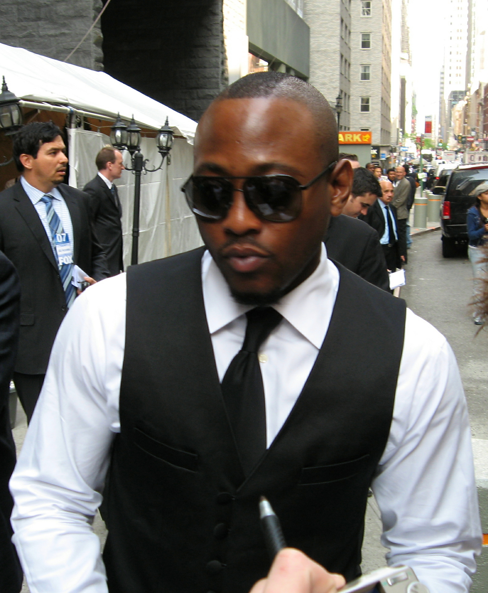 Omar Epps Photo.